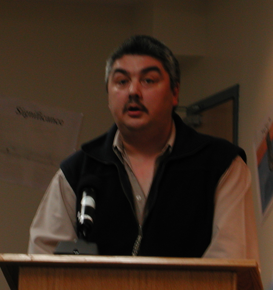 Peter Kilabuk, member for Pangnirtung, Nunavut, taken January 2001, while Minister of Education.